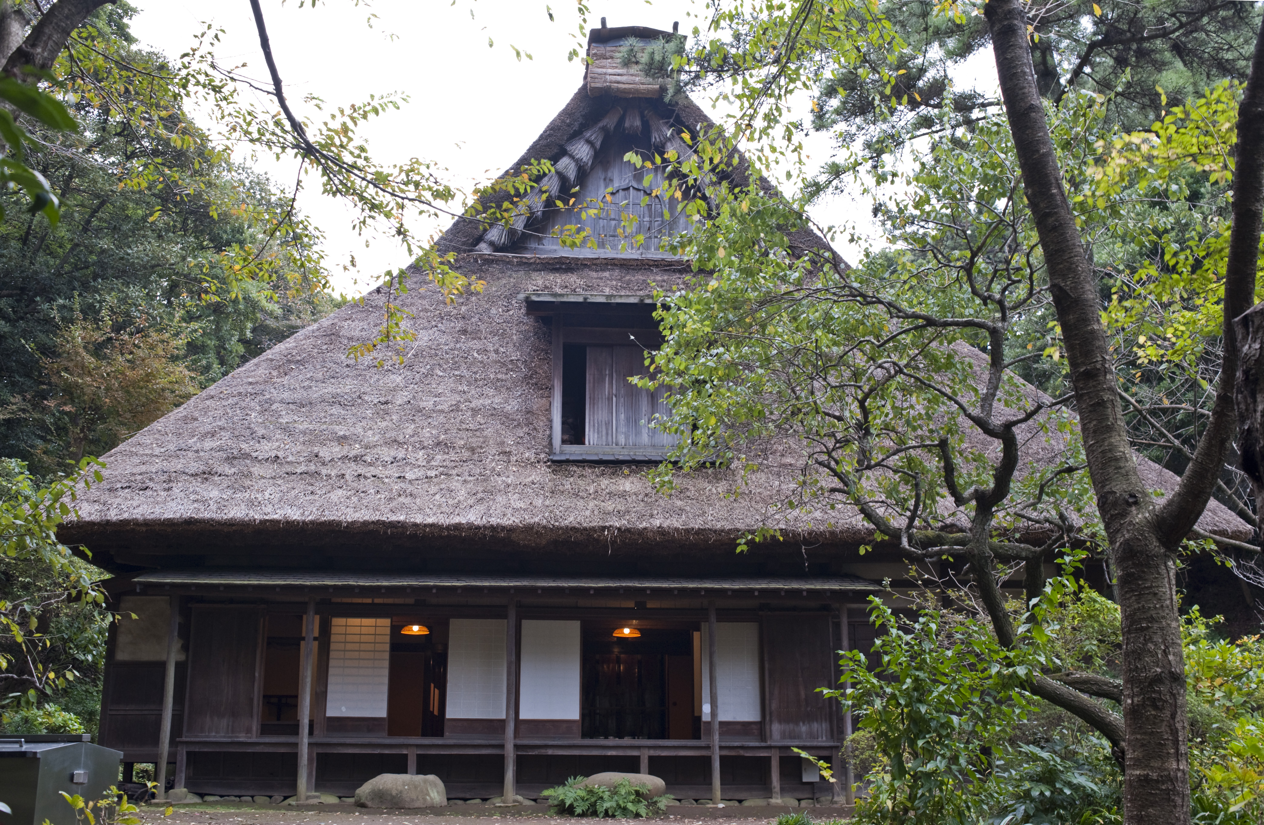 The Old Yanohara House at the Sankei-en garden in Yokohama